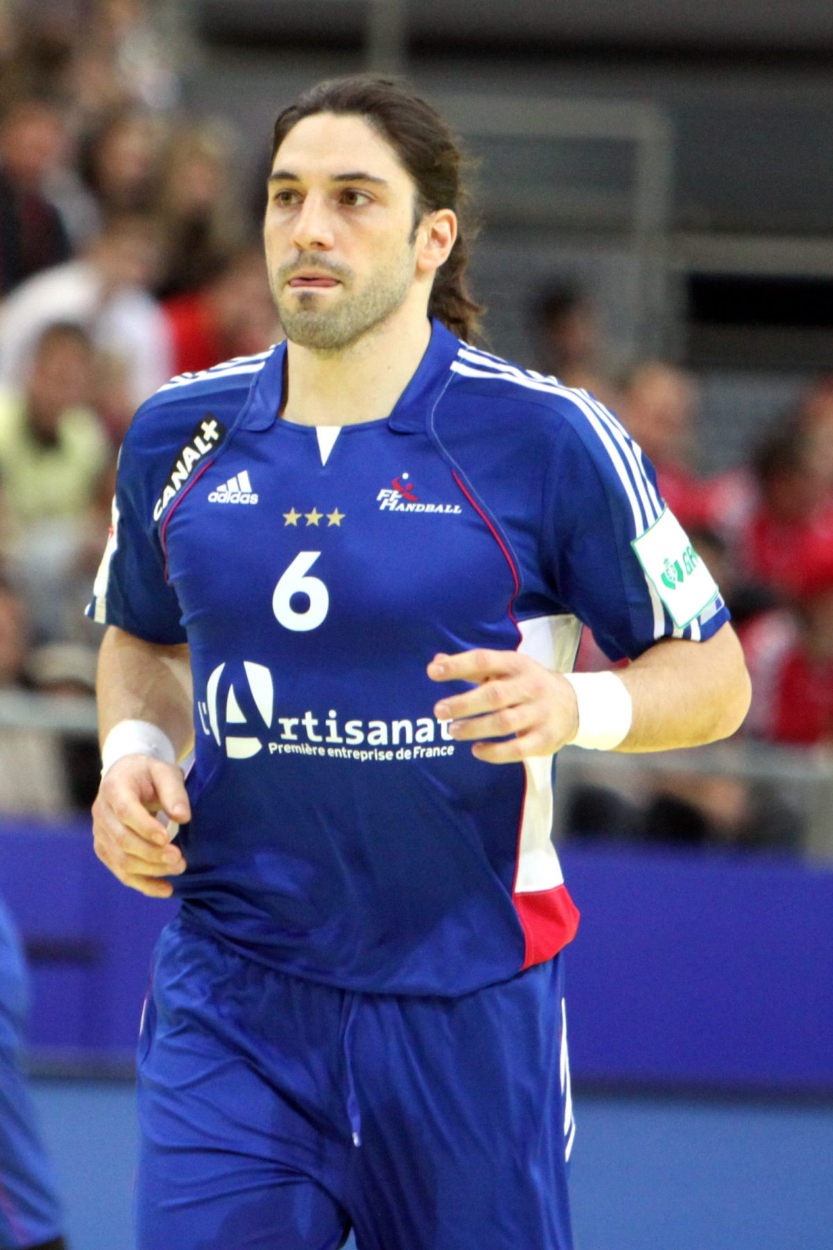 Bertrand Gille (HSV Hamburg), France national handball team